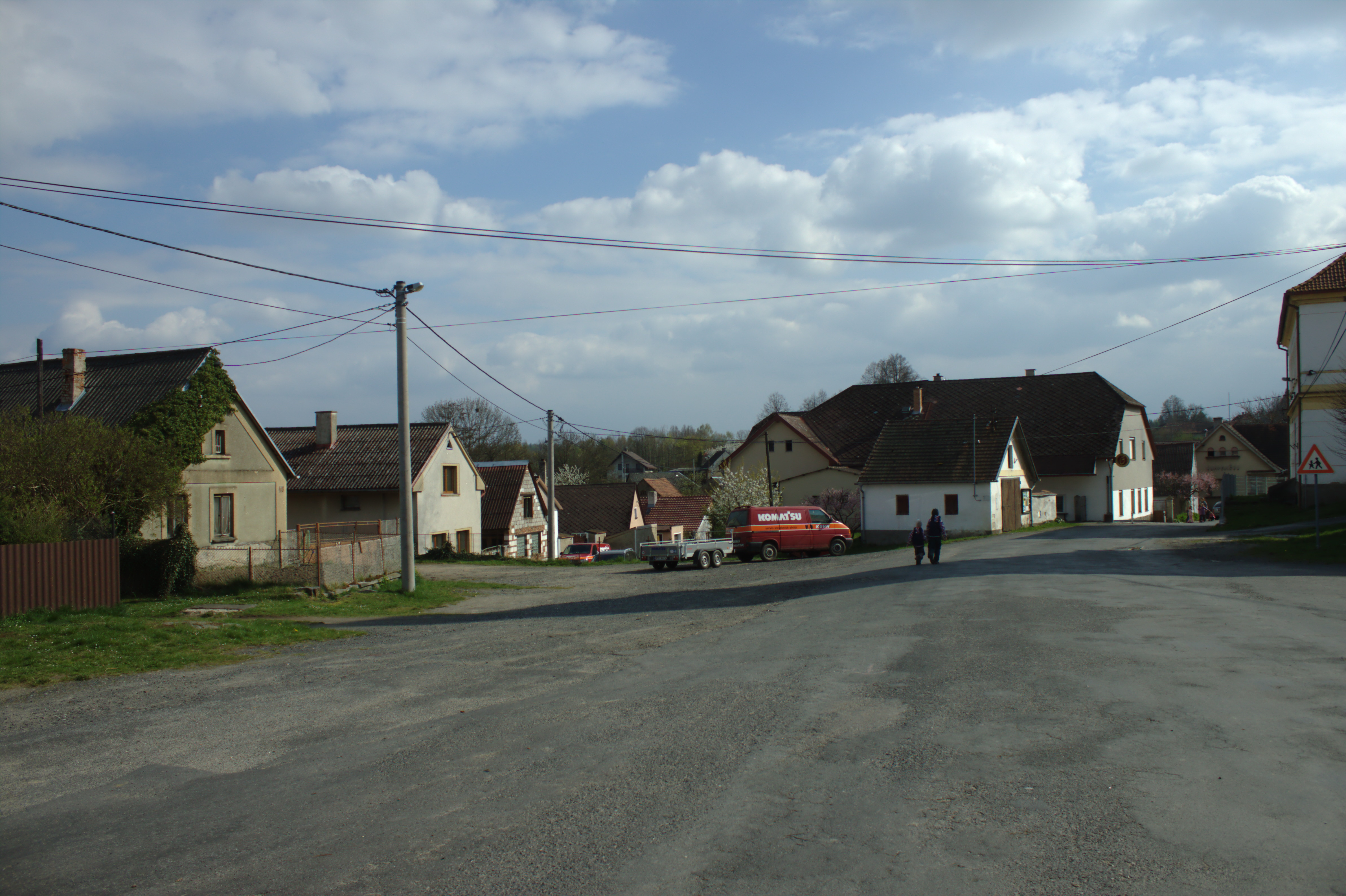 A common in the village of Velenovy, Plzeň Region, CZ